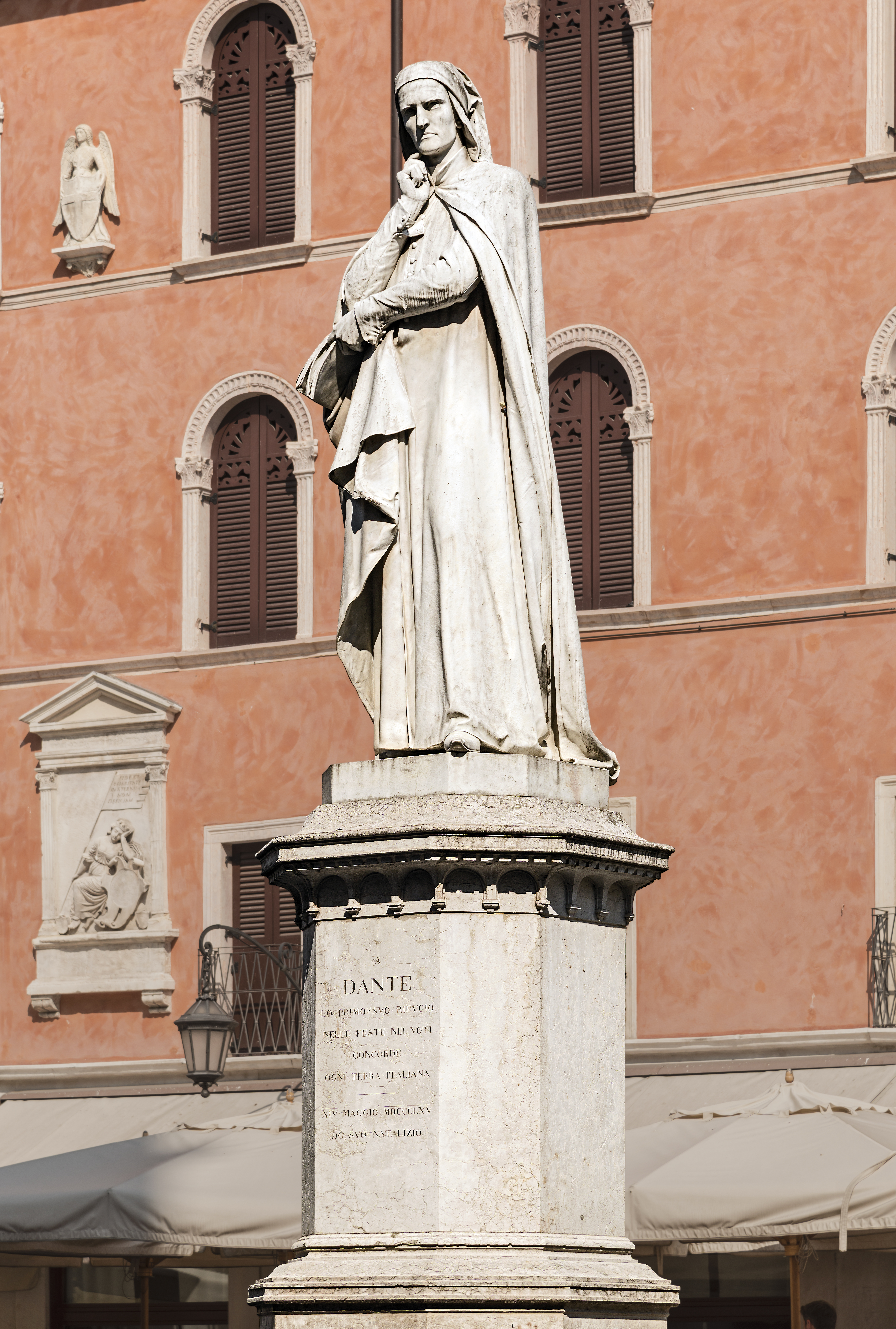 Piazza dei Signori (Verona) Dante by Ugo Zannoni. Statue, Carrara marblewas inaugurated May 14, 1865. In the background the Casa della Pietà .